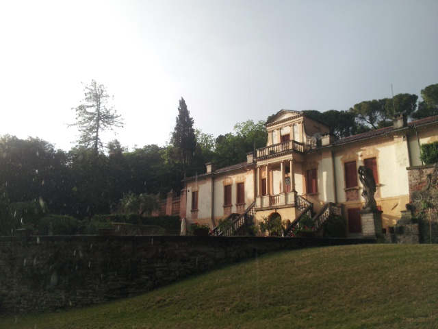 Vigna Contarena in a rainy day